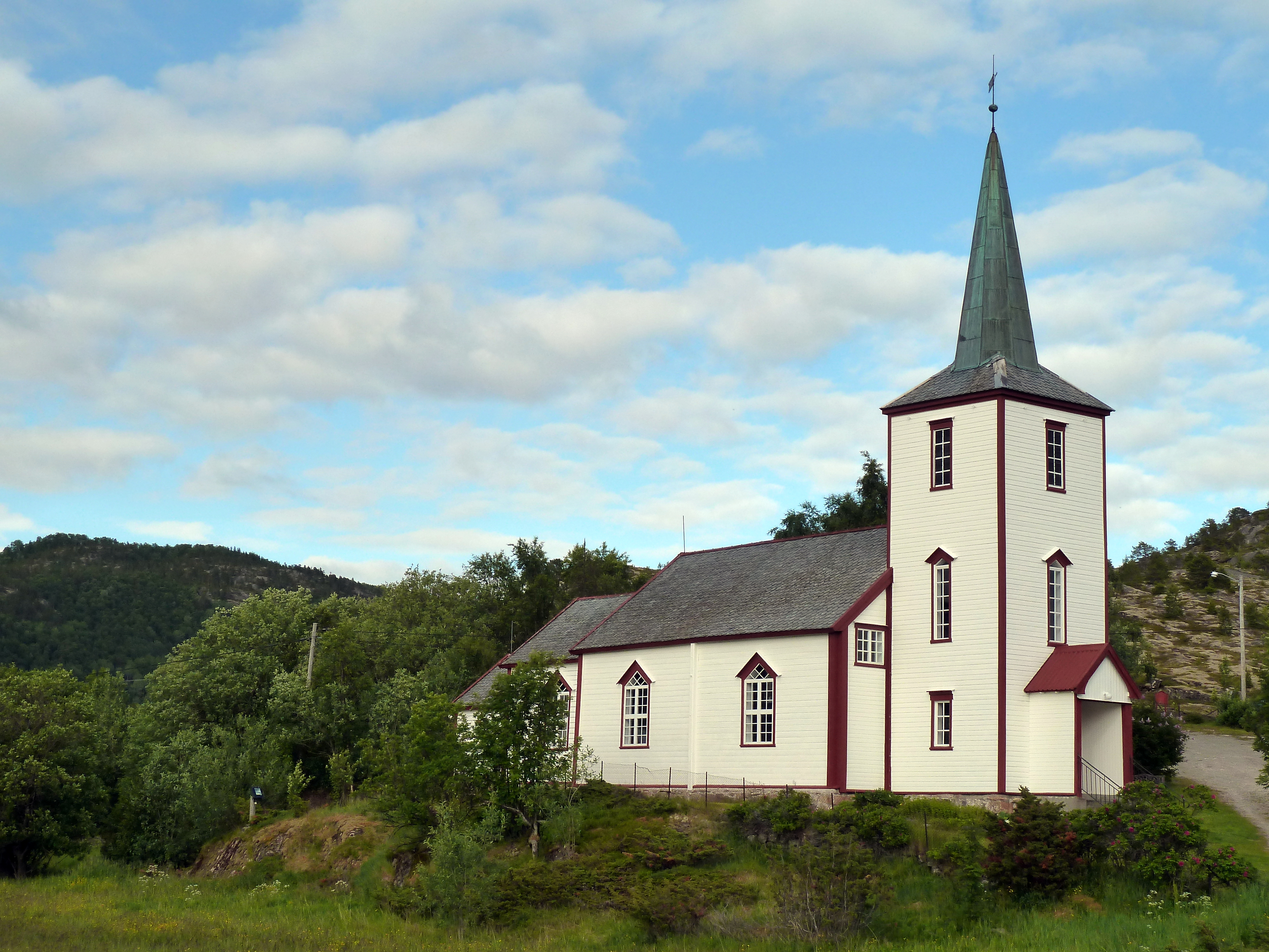 Sagfjord Church at Finnøya in Hamarøy, Norway.